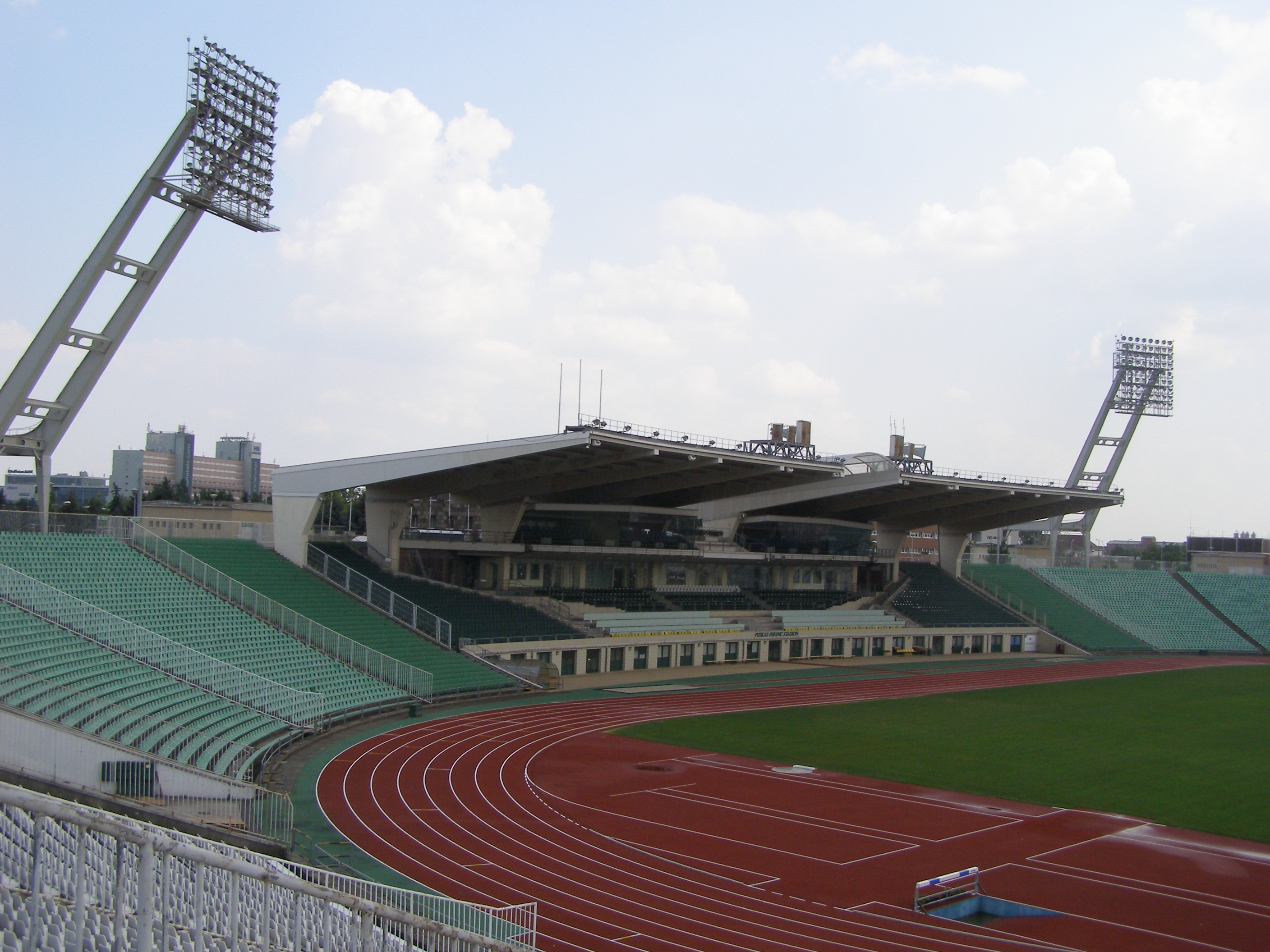 Budapest - Ferenc Puskas Stadium